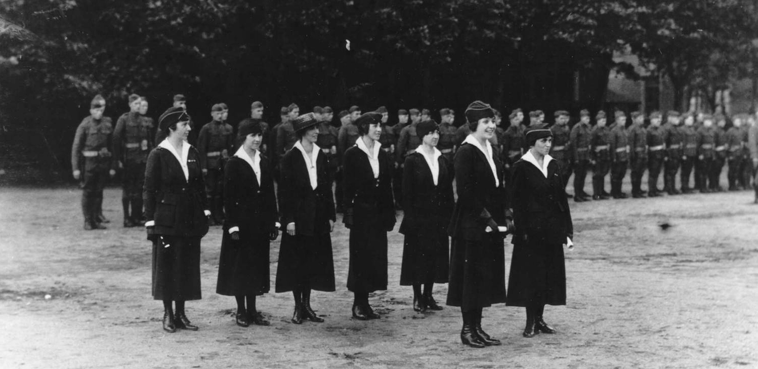 Signal Corps Telephone Girls receive decorations. 322nd Field Signal Bn. in the background. From left to right: front row, Suzanne Prevot and Marie A. LeBlanc, who were decorated. Back row, Grace D. Banker, Cordelia Dupuis, Janet R. Jones, Helen Orb, and Eileen Munro. Coblenz, Rhenish Prussia, Germany.